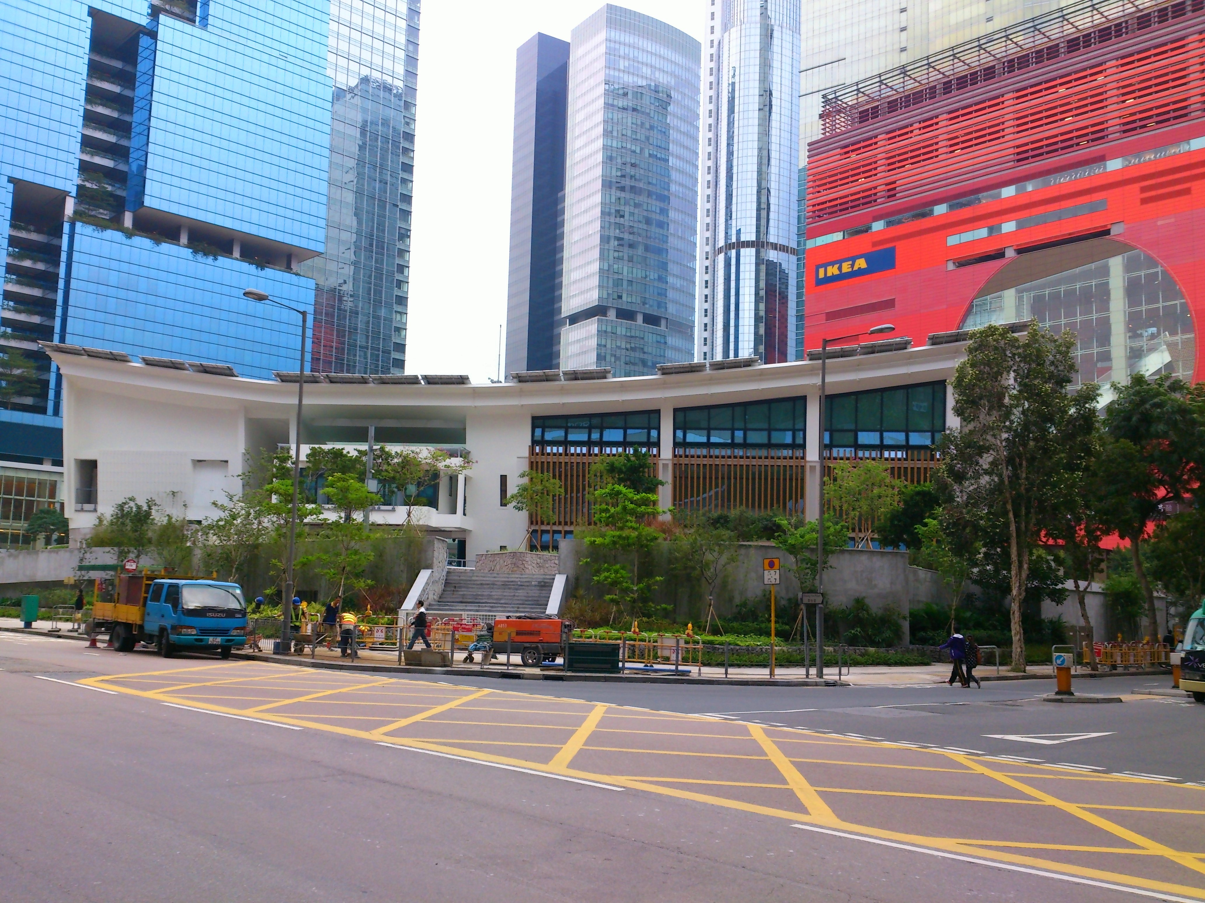 CIC Zero Carbon Building